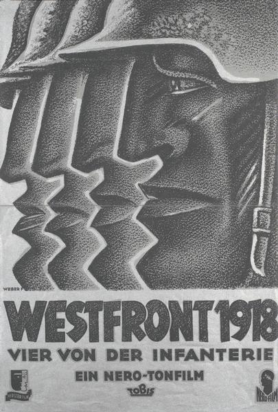 Low-resolution image of poster for the motion picture Westfront 1918